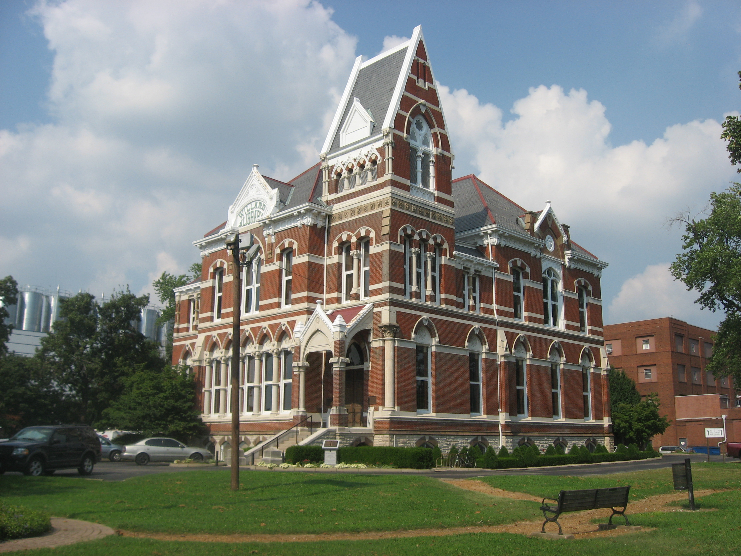 Front and southern side of the Willard Library, located at 21 First Avenue in Evansville, Indiana, United States. Built in 1876, it is listed on the National Register of Historic Places.